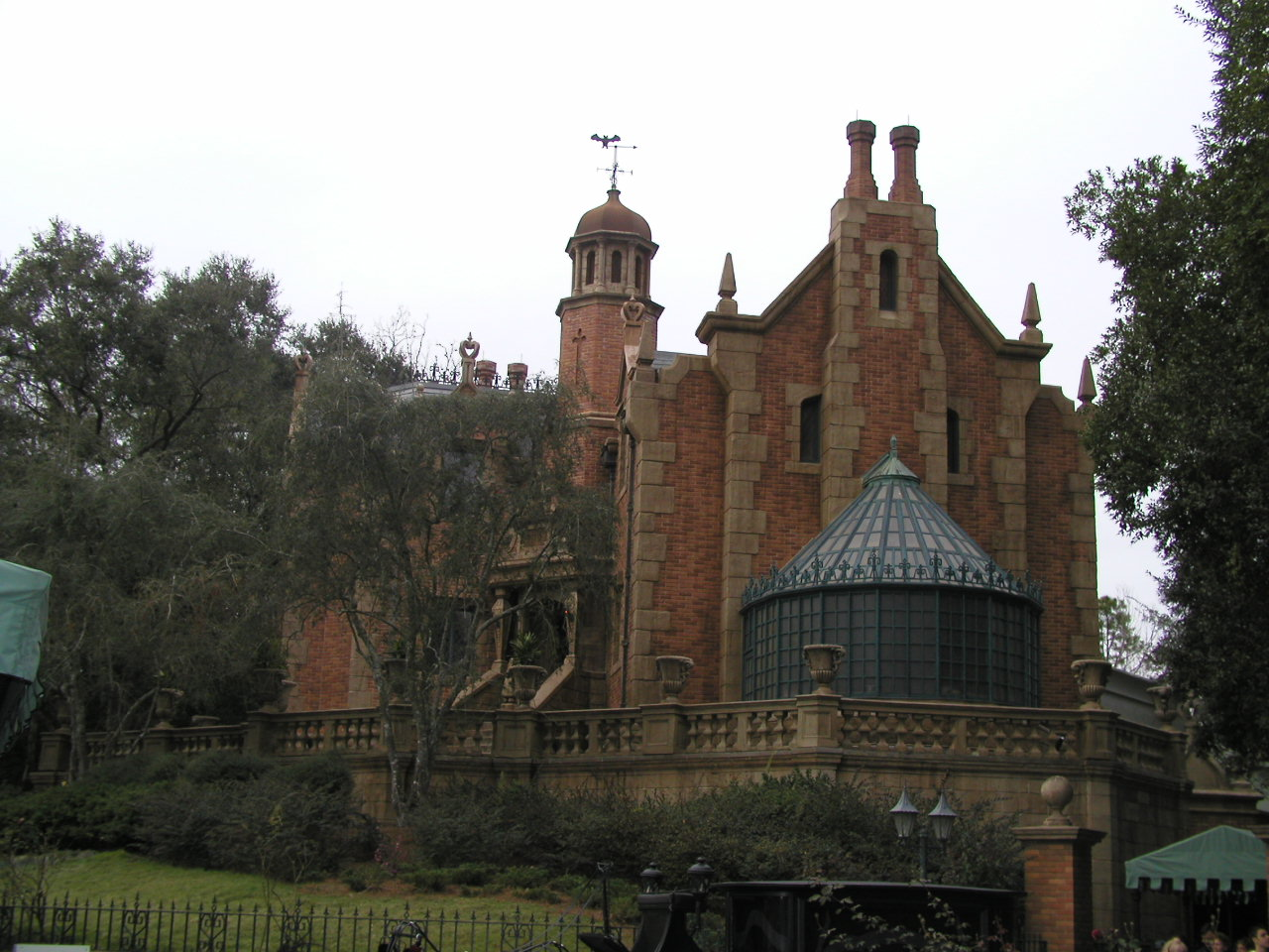 The Haunted Mansion in the Magic Kingdom in Walt Disney World.